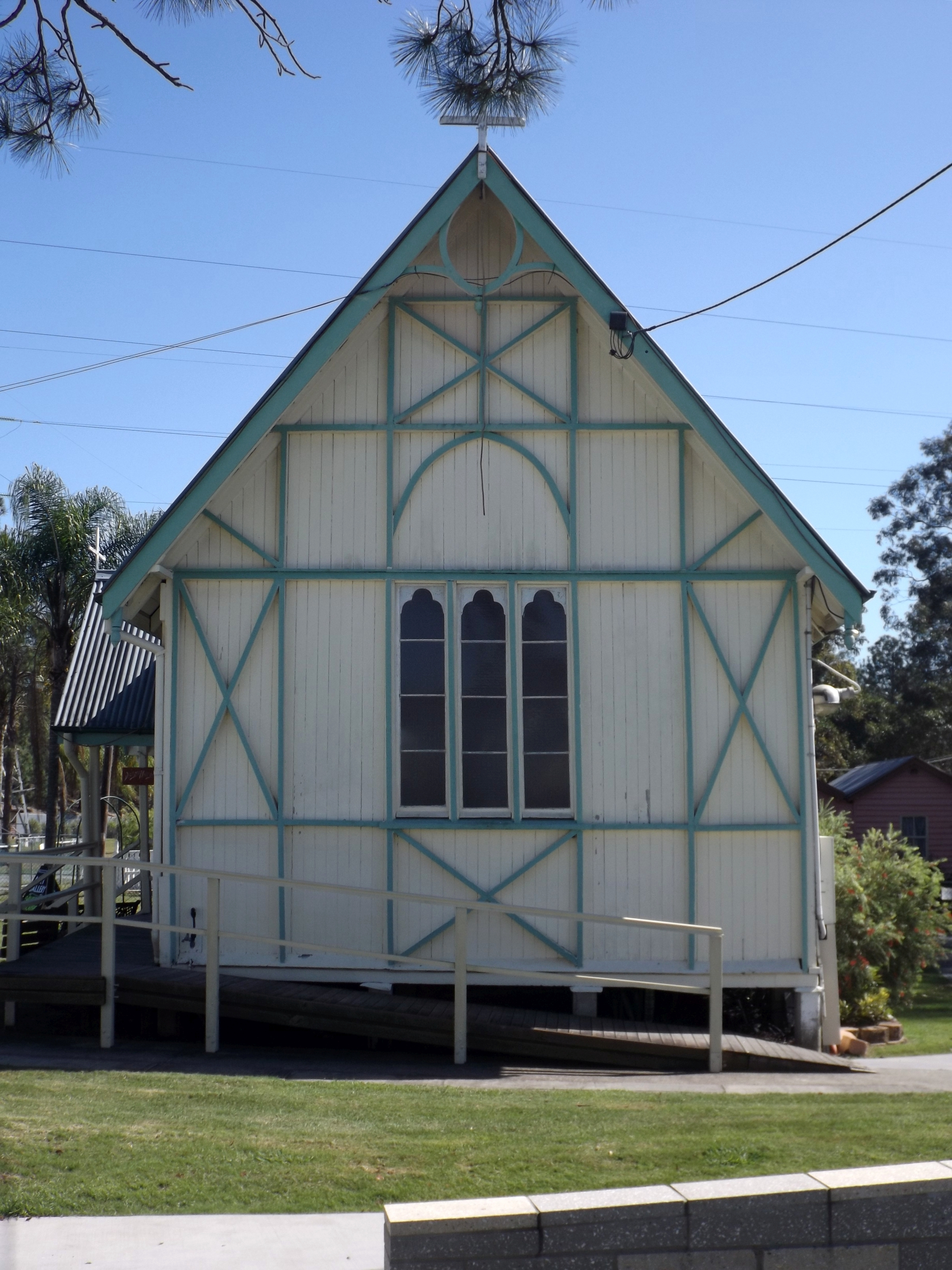 Photo of George's Anglican Church at the Beenleigh Historical Village in Beenleigh, Logan City, Queensland, Australia.